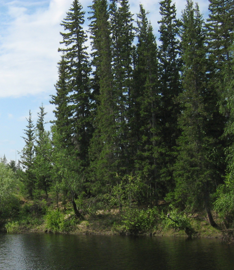 Picea obovata, Liutenge River, Yakutia, Siberia